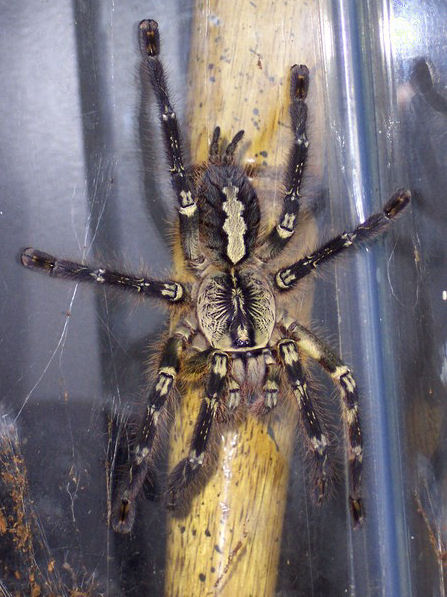 picture of a female poecilotheria ornata